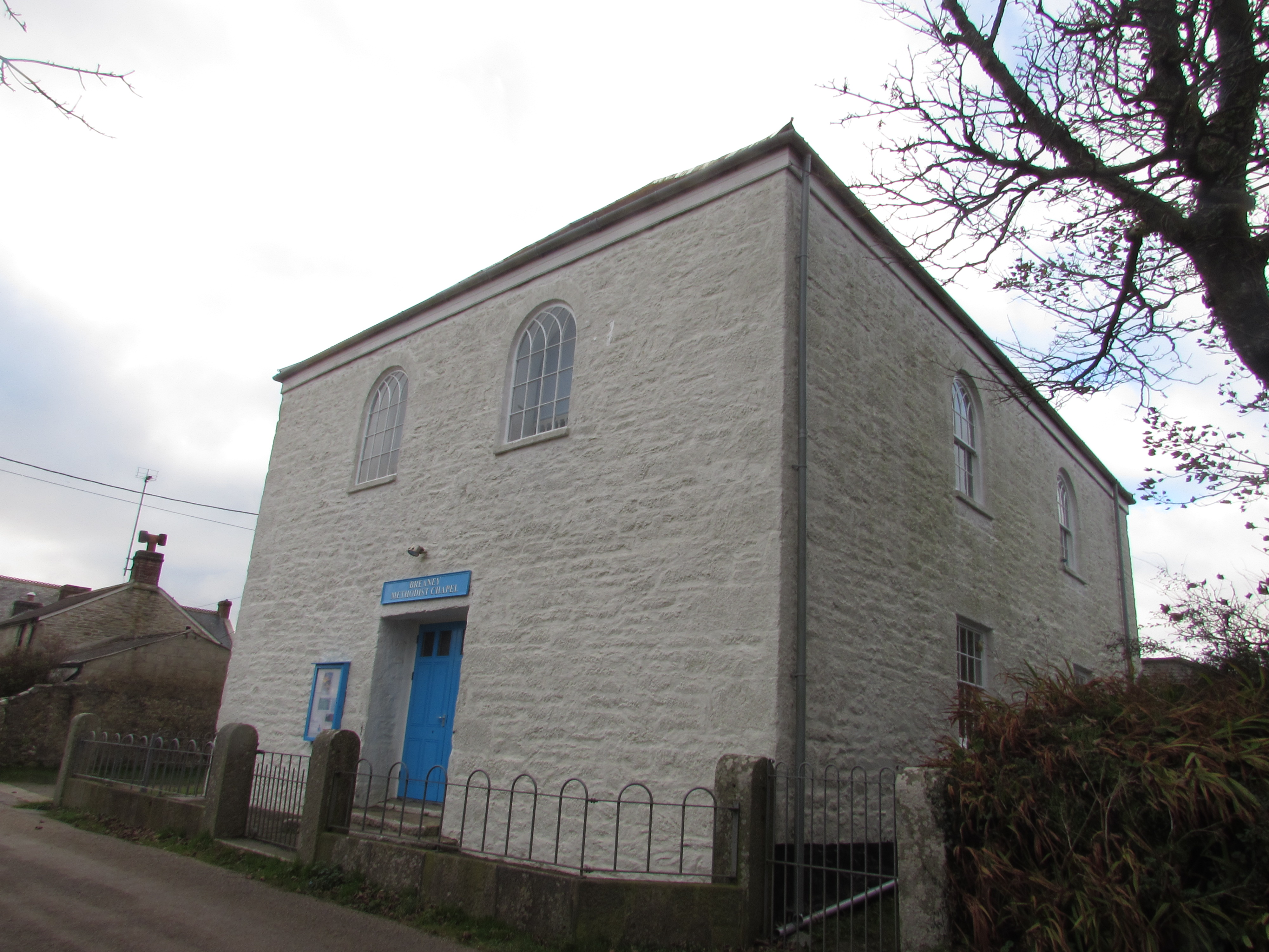 Outside of Breaney Methodist chapel for the road